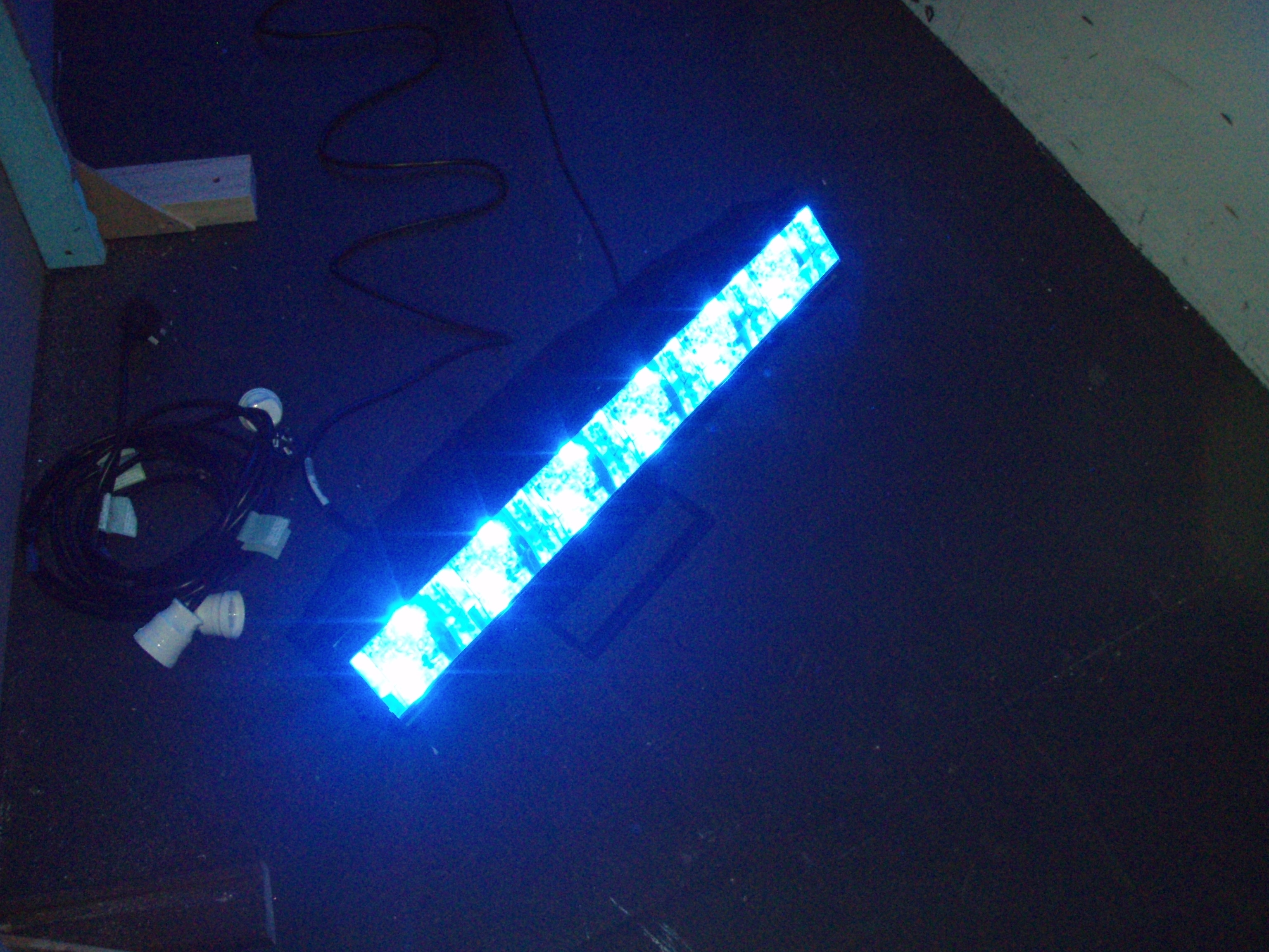 A photo of a Martin Stagebar LED light fitting being used as a Cycolorama groundrow.